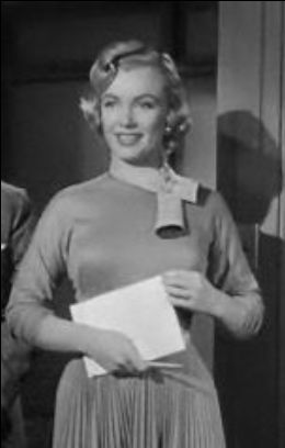 Cropped screenshot of Marilyn Monroe from the film Monkey Business